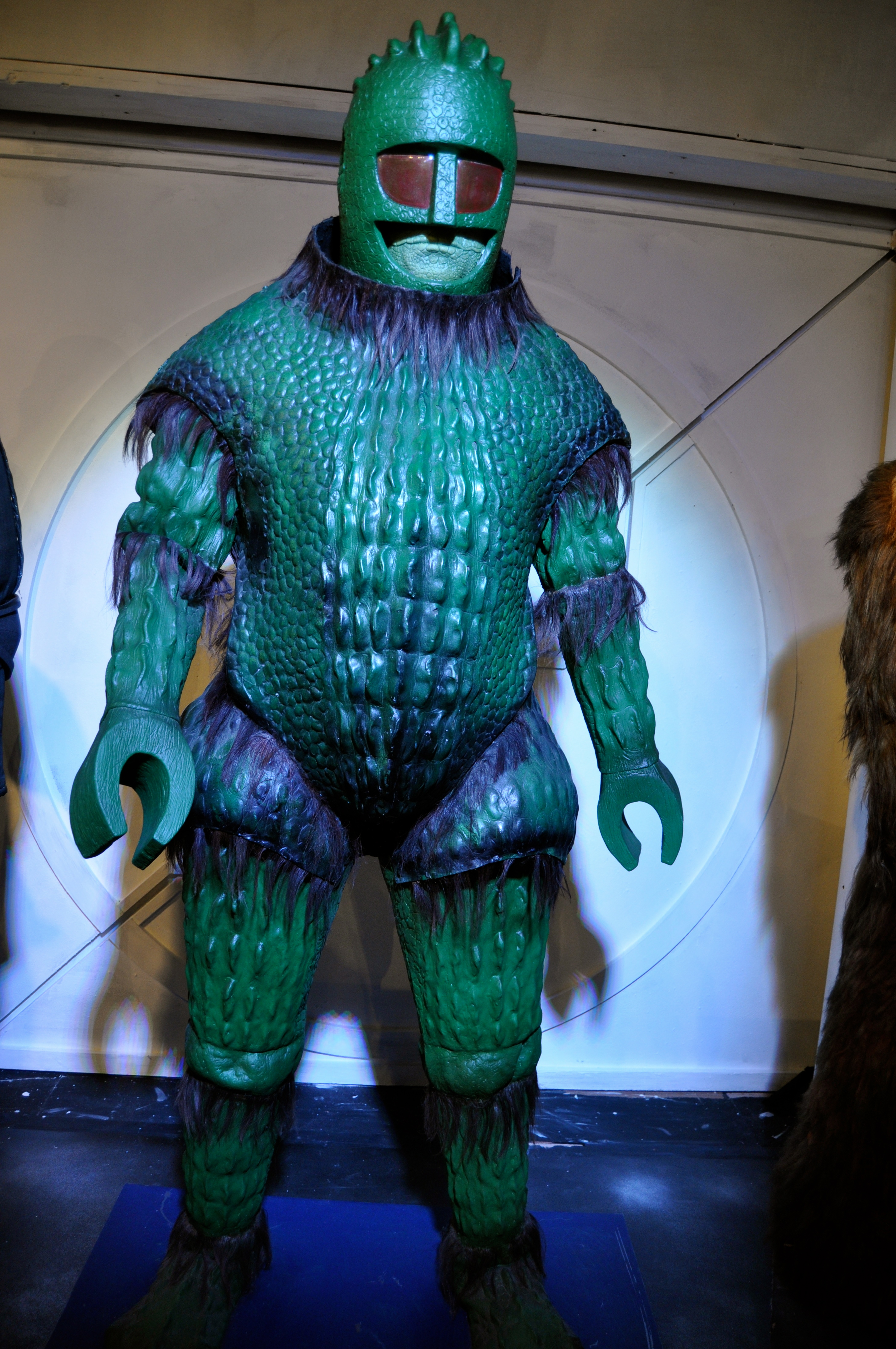 DWE Cardiff Bay, Port Teigr November 2016 Doctor Who Experience